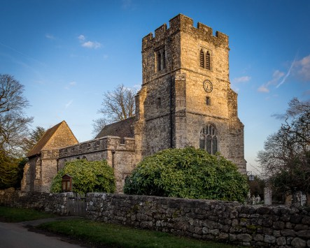 An image of St Peters and St Paul's Church located in East Sutton, Kent